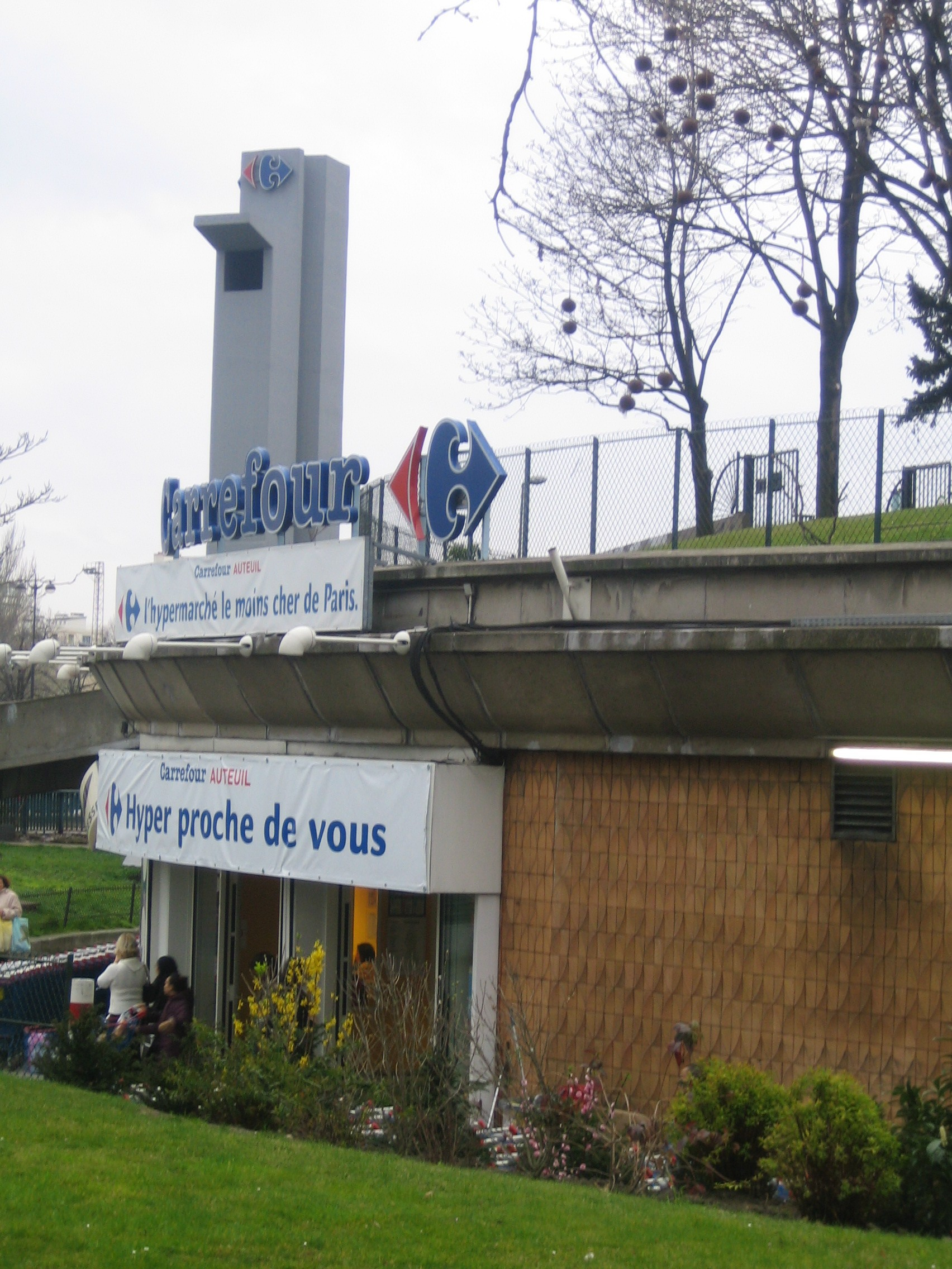 Hypermarket Carrefour in Paris, Entrance, Porte d'Auteuil.